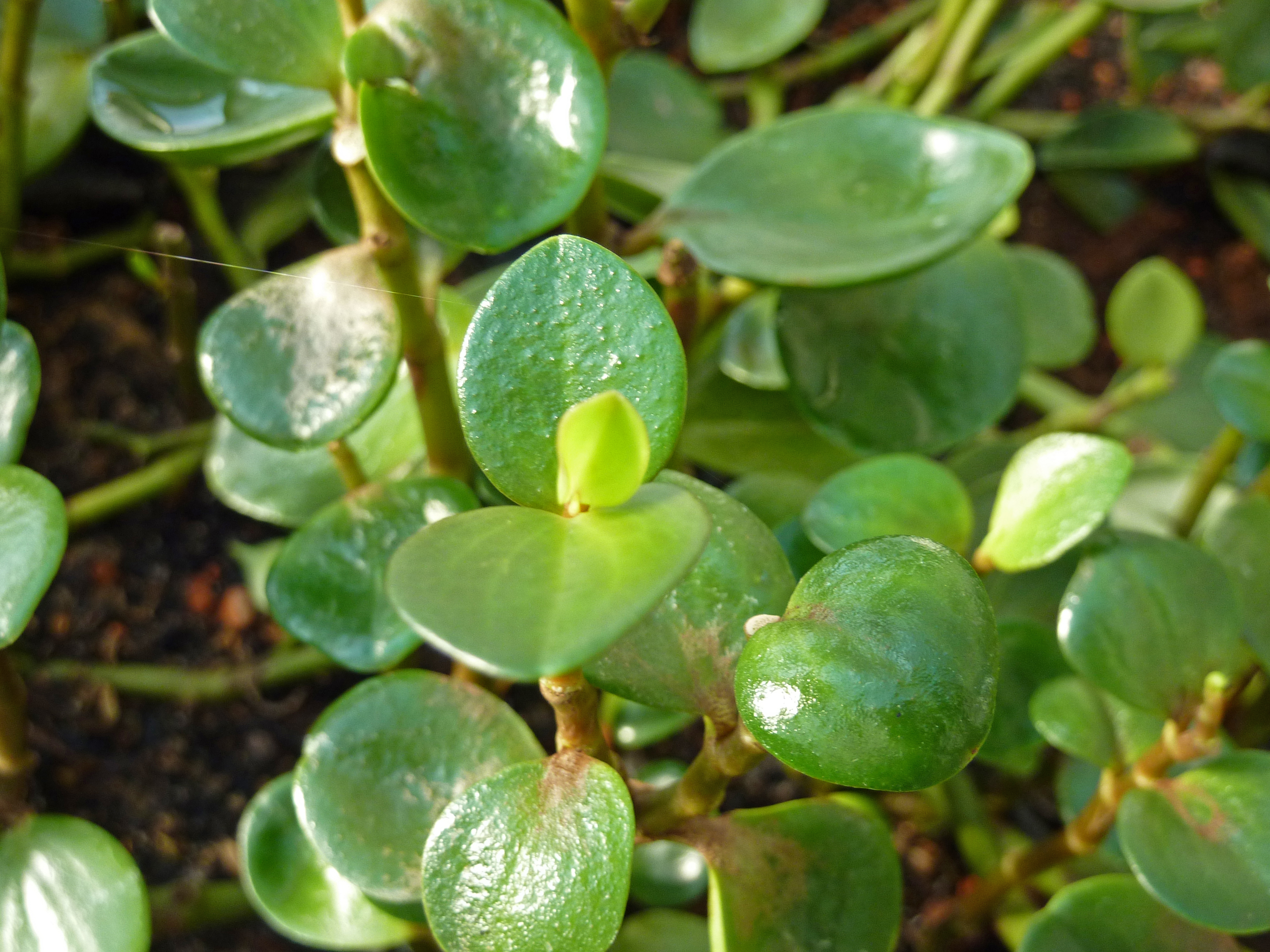 Peperomia tuisana in the Botanical Garden, Berlin.